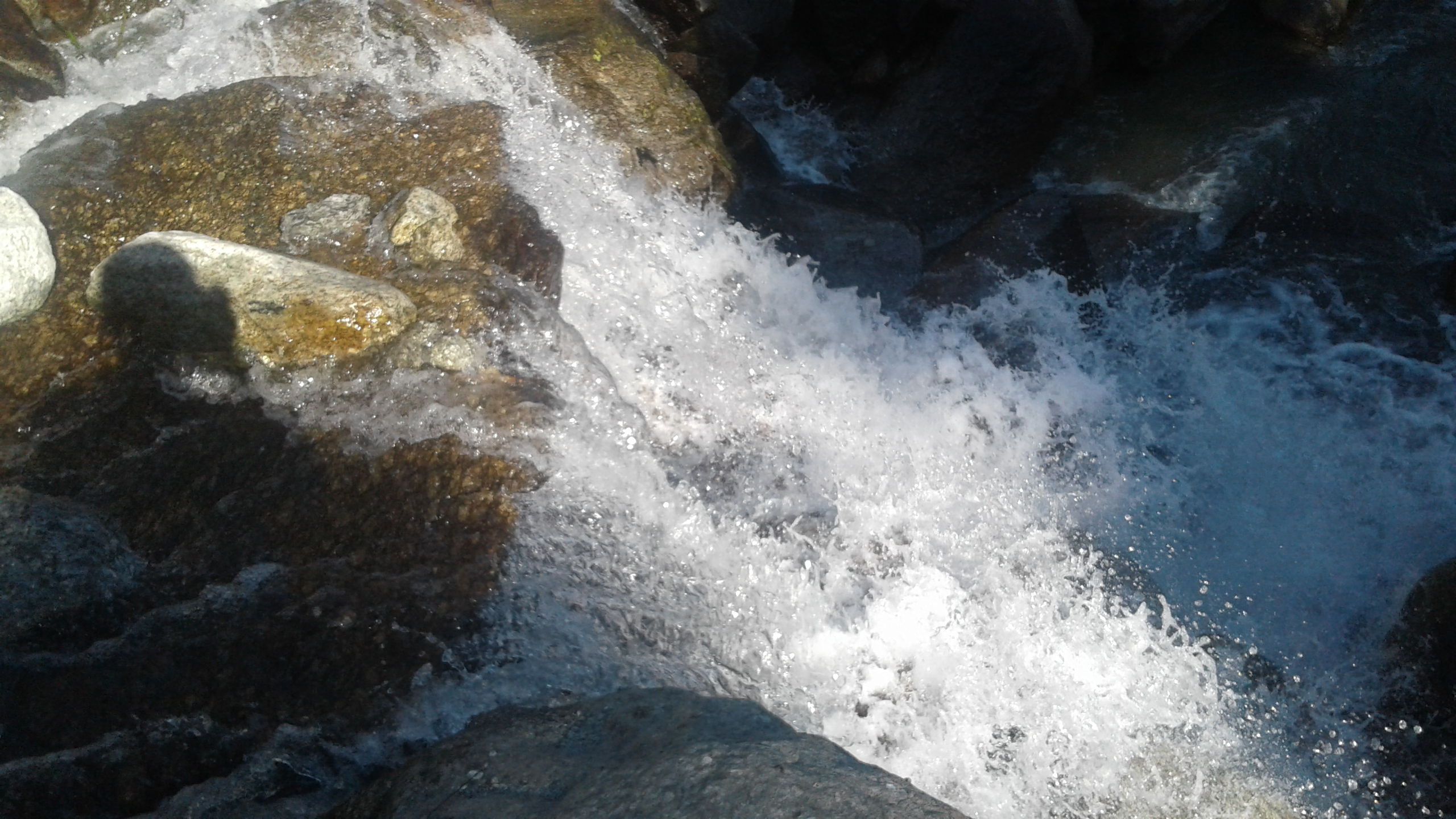 Solukhumbu district Salyan VDC, Thade Khola river near Junbesi settlement pictured on 16 December, 2016